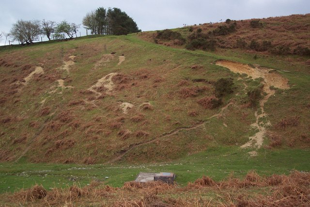 Spring well and rabbit warrens below Hergest Ridge. Covered spring 250 metres west of Bage, in valley running southeast from racecourse on Hergest Ridge.